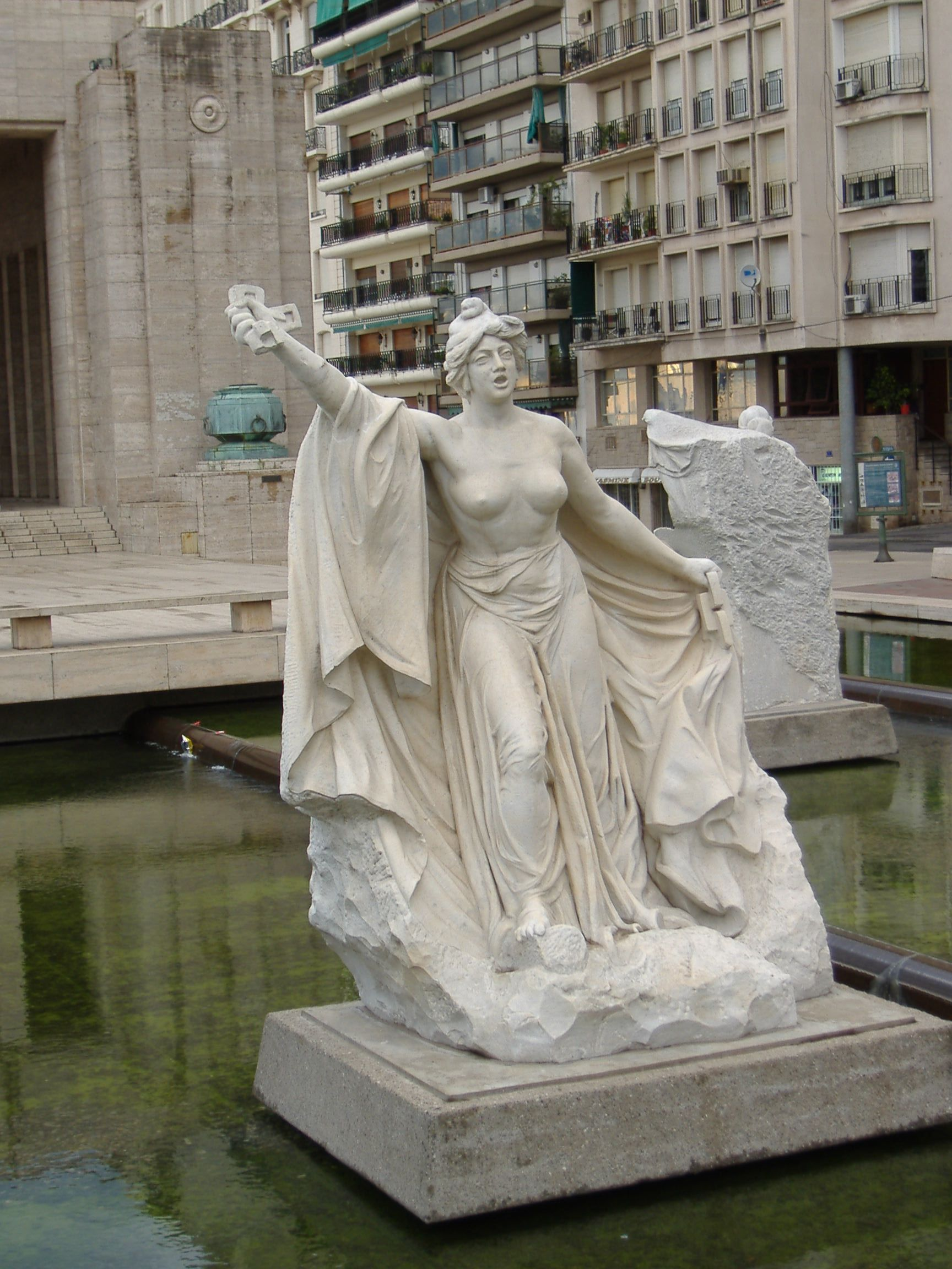 A statue made by Lola Mora